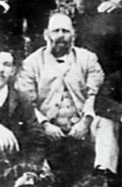 Alexander Spence Artis, employee of Bulli Jetty 1892